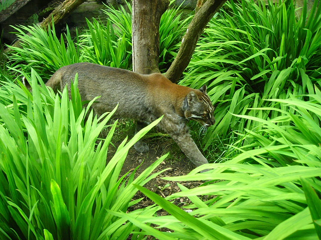 Asiatic Golden Cat At Edinburgh Zoo